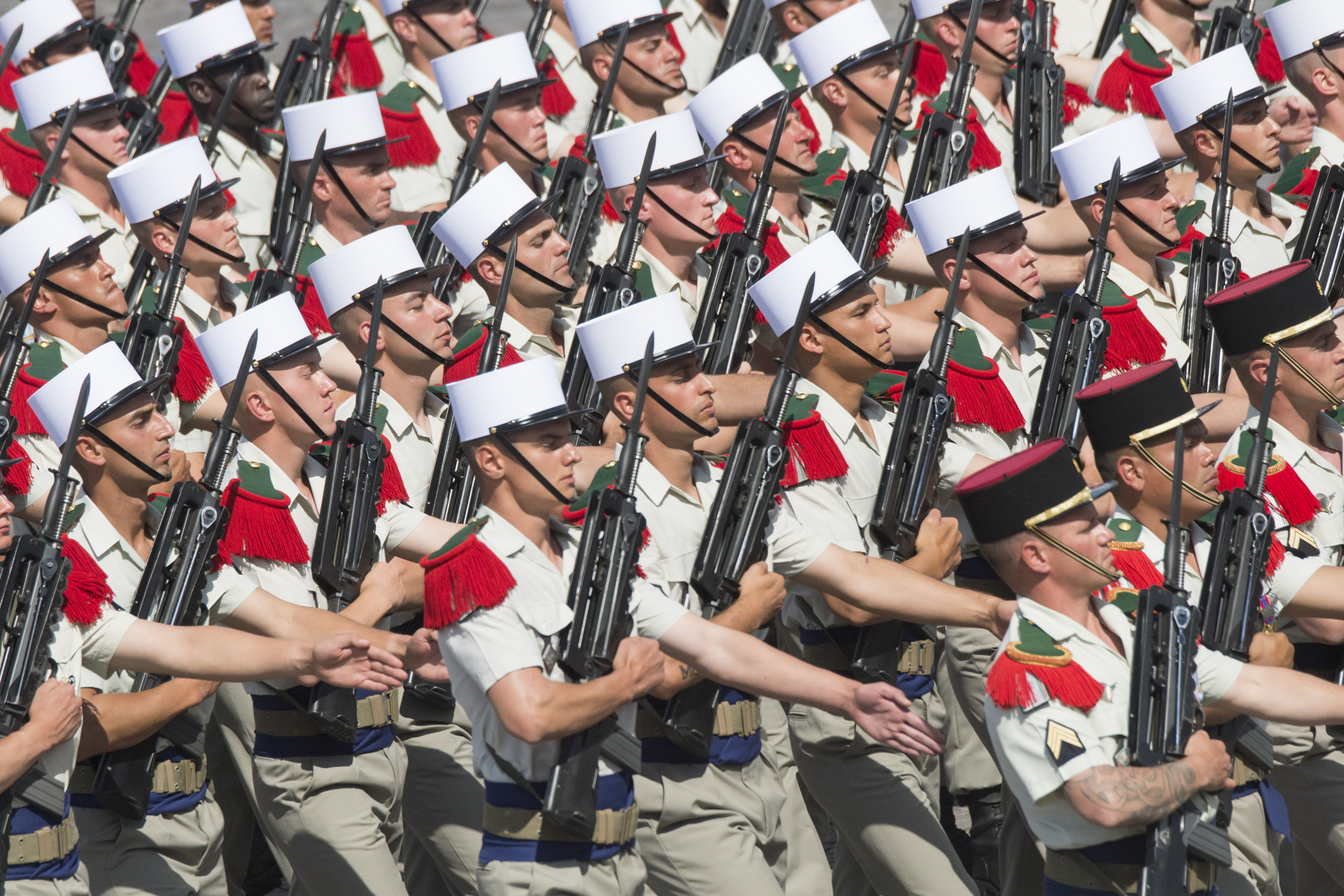 French soldiers, sailors, airmen and Marines lmarch in the annual Bastille Day military parade down the Champs-Elysees in Paris, July 14, 2017. DoD photo by Navy Petty Officer 2nd Class Dominique Pineiro